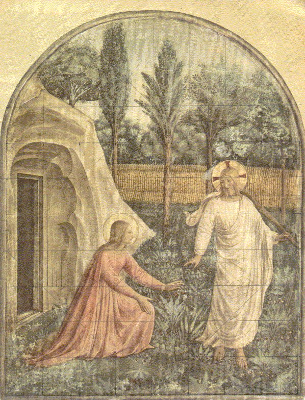 from [1]